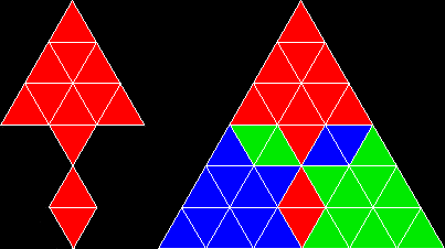 A rocket-like rep-tile created from twelve equilateral triangles